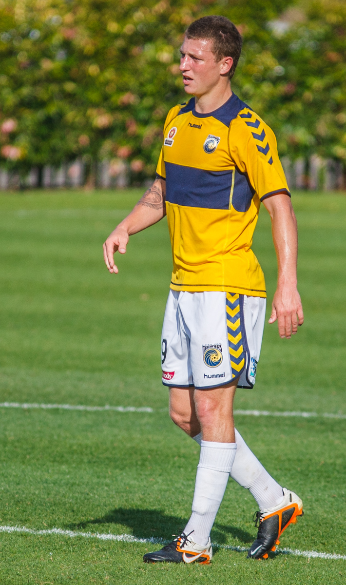 Mitchell Duke playing in a pre-season game between the Central Coast Mariners and Melbourne Victory on 16/09/2012.